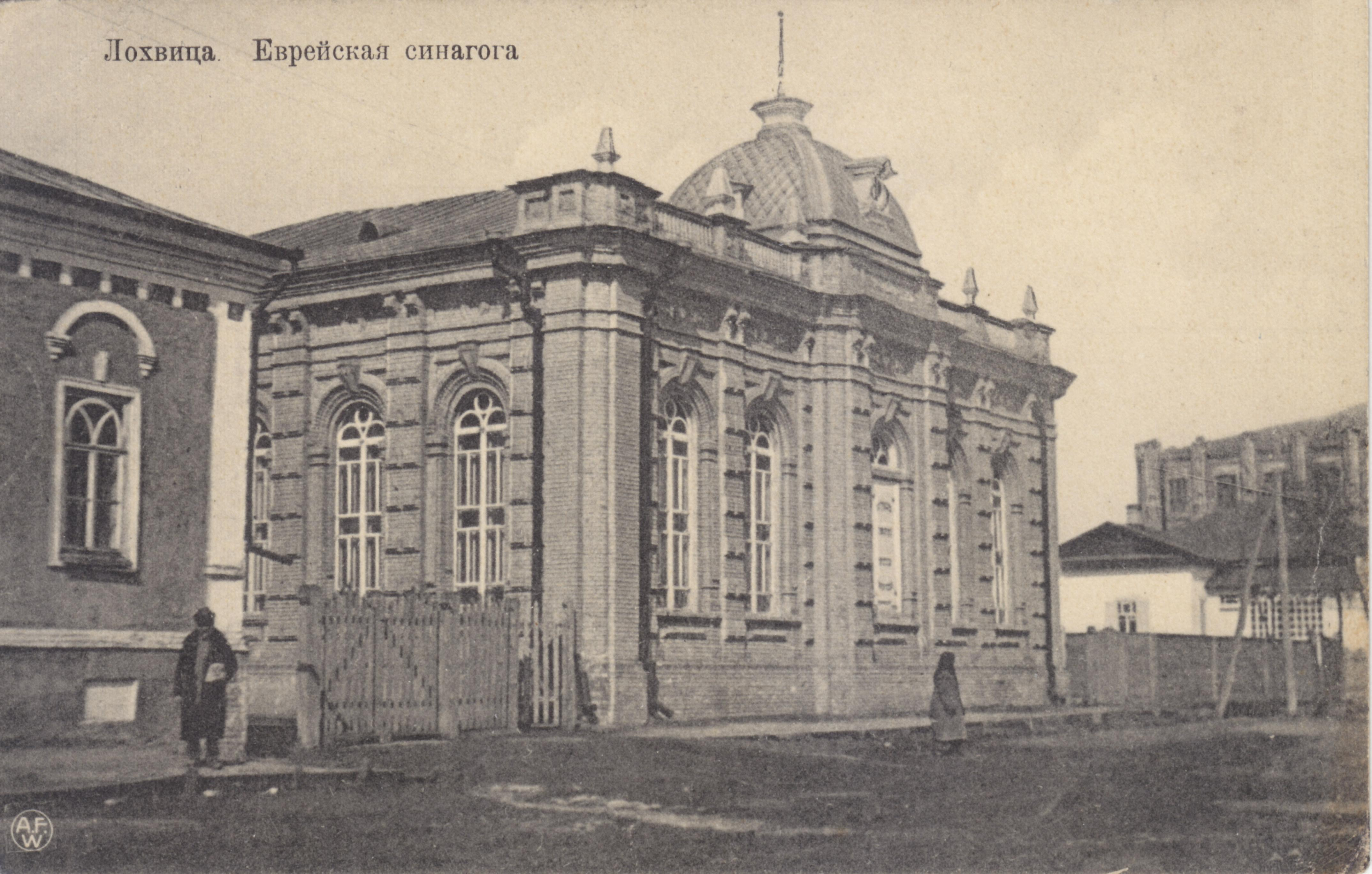 Jewish synagogue in Lokhvytsya (Poltava region). As of 2015 there is in poor condition. Located on Gogol street. בית כנסת Lokhvytsya